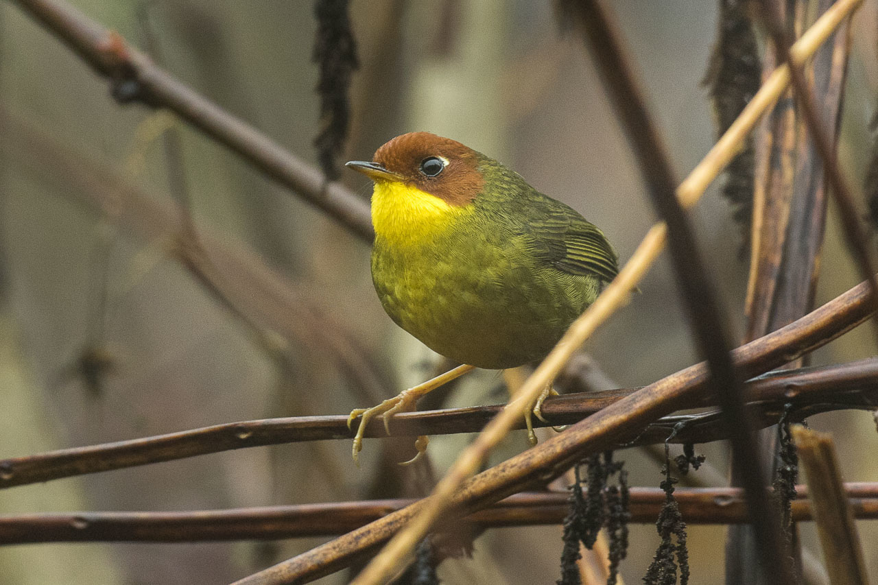 Chestnut-headed Tesia - Eaglenest - India_FJ0A0937